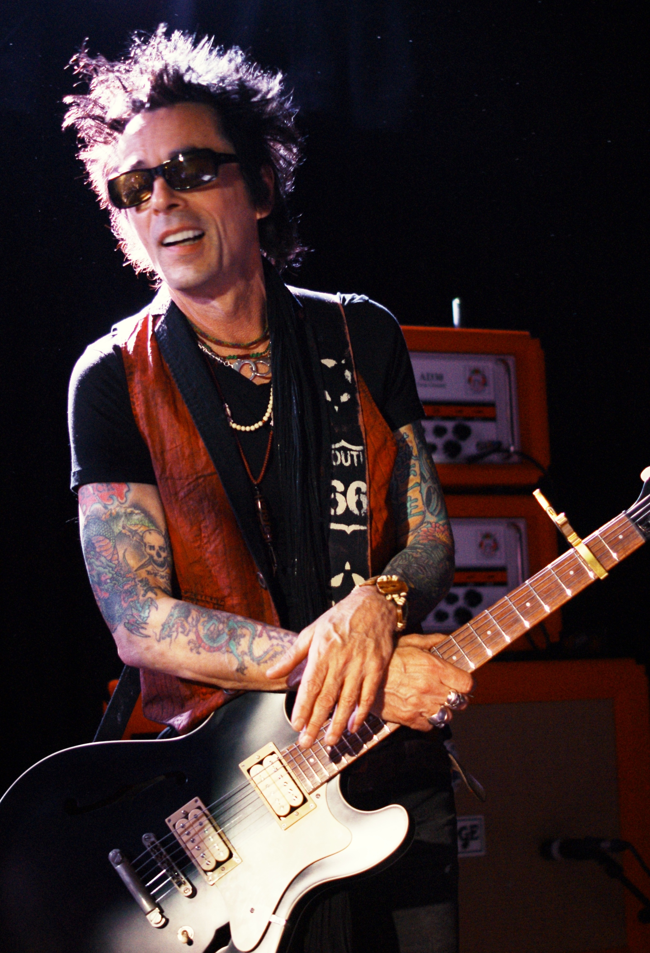 Earl Slick playing with The New York Dolls at Club Academy in Manchester, England on 29 March 2011.